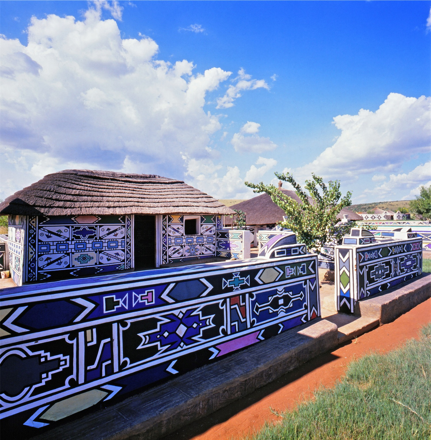 This media shows a South African Protected Site with SAHRA file reference 9/2/242/0001.